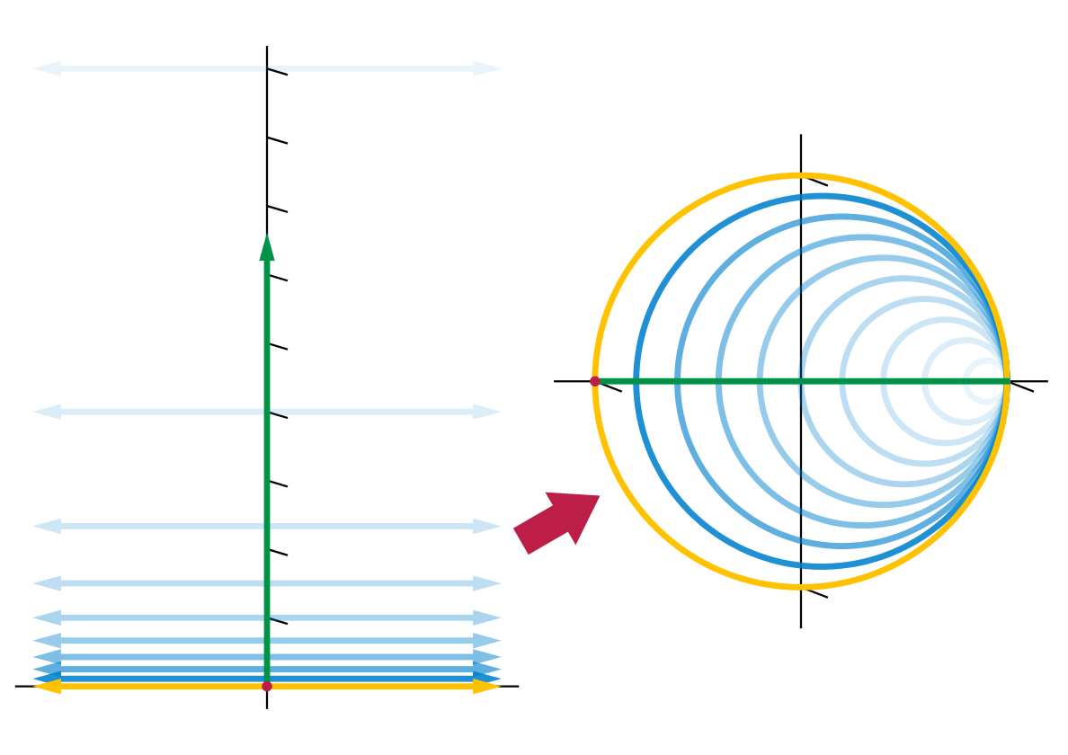 Conformally map horizontal lines in upper half-plane to circles in unit disk